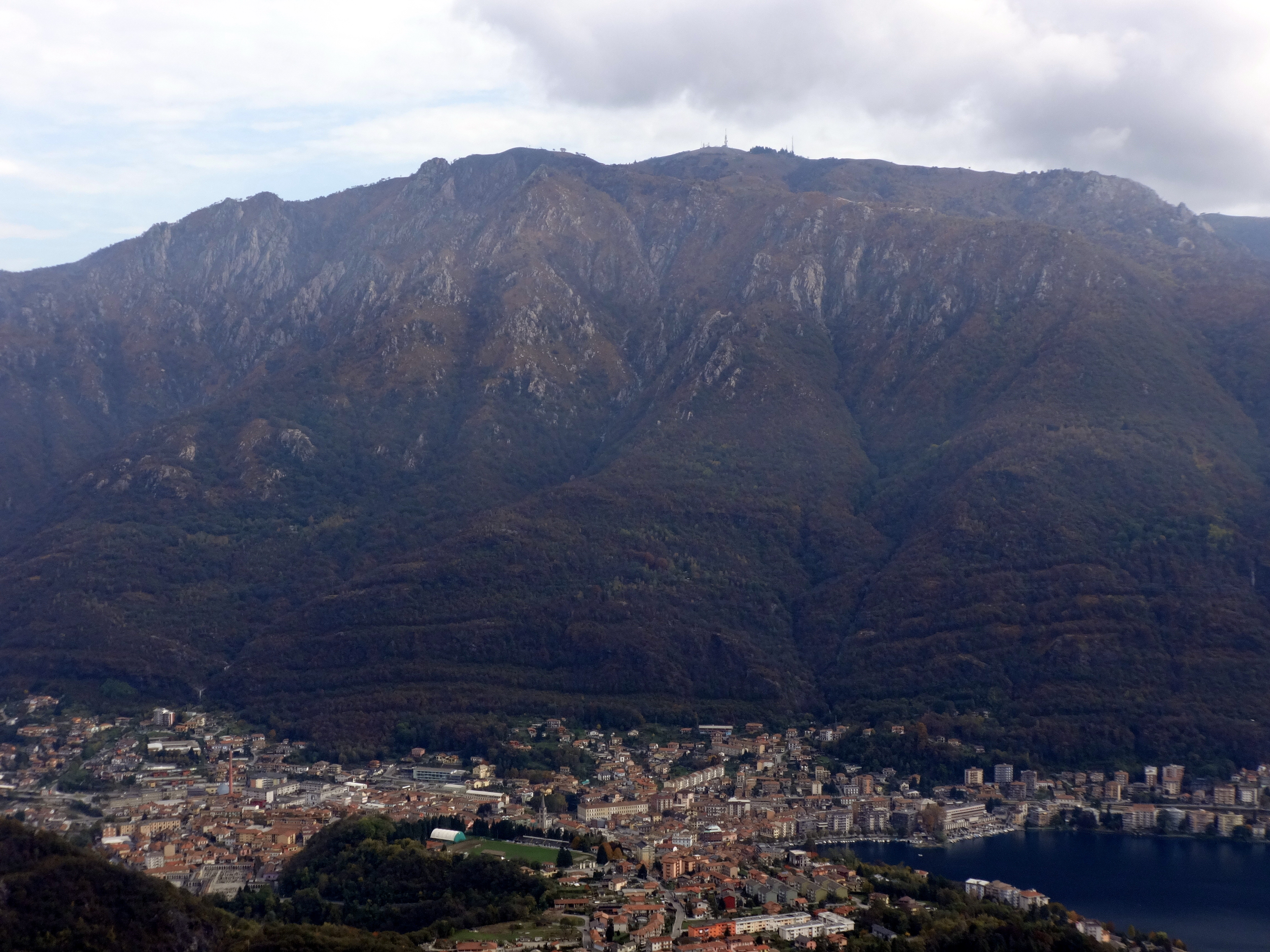 Omegna, at Lake Orta, Italy in autumn